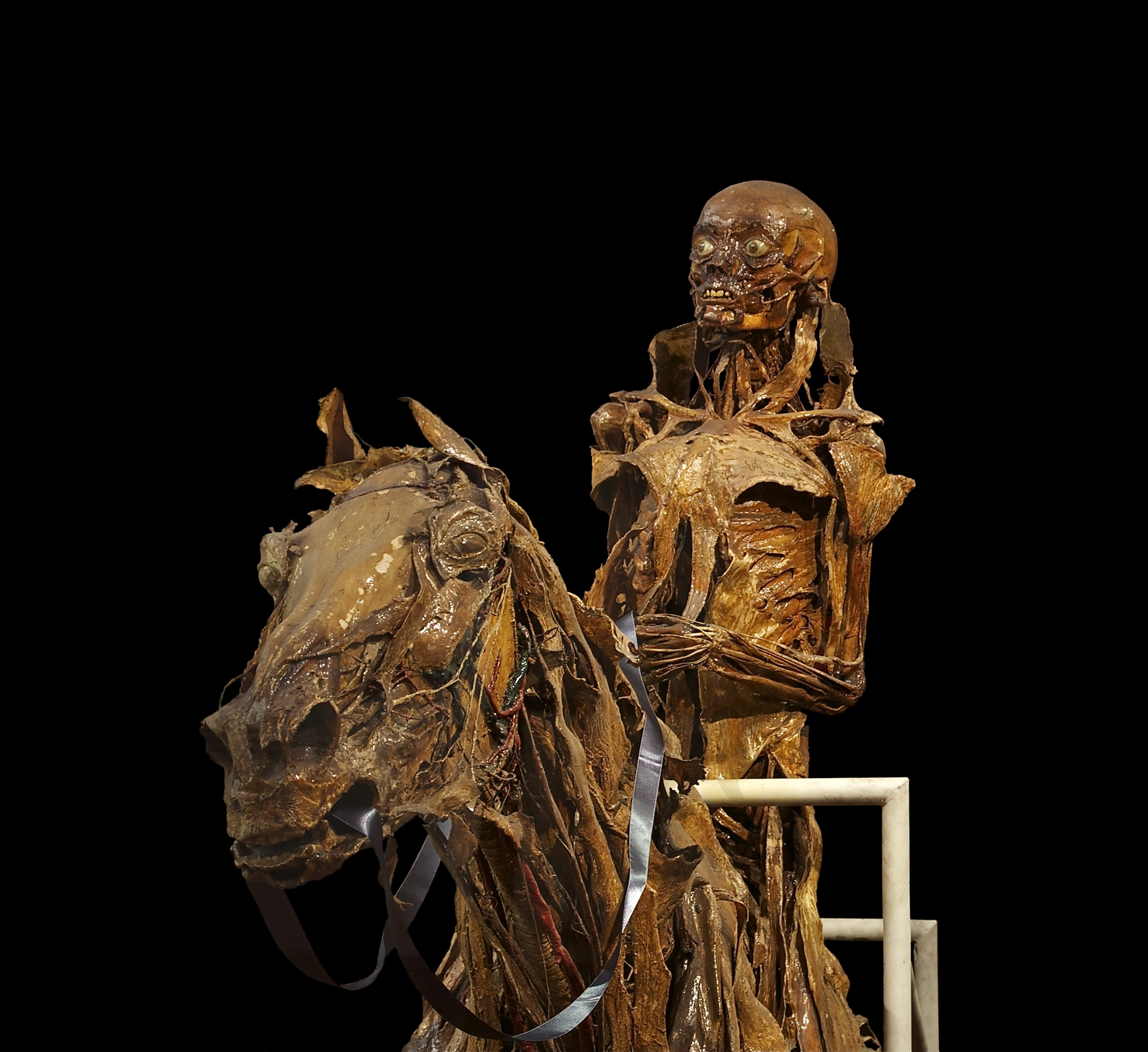 Detail of an écorché (with mummification) of a horse and its rider, made between 1766 and 1771 by the French anatomist Honoré Fragonard (1732–1799). It is in the collection of the Museum Fragonard of the École nationale vétérinaire d'Alfort (National Veterinary School of Alfort), in Maisons-Alfort, Val-de-Marne, Île-de-France, France. The techniques used to produce the sculpture are still partially unknown.